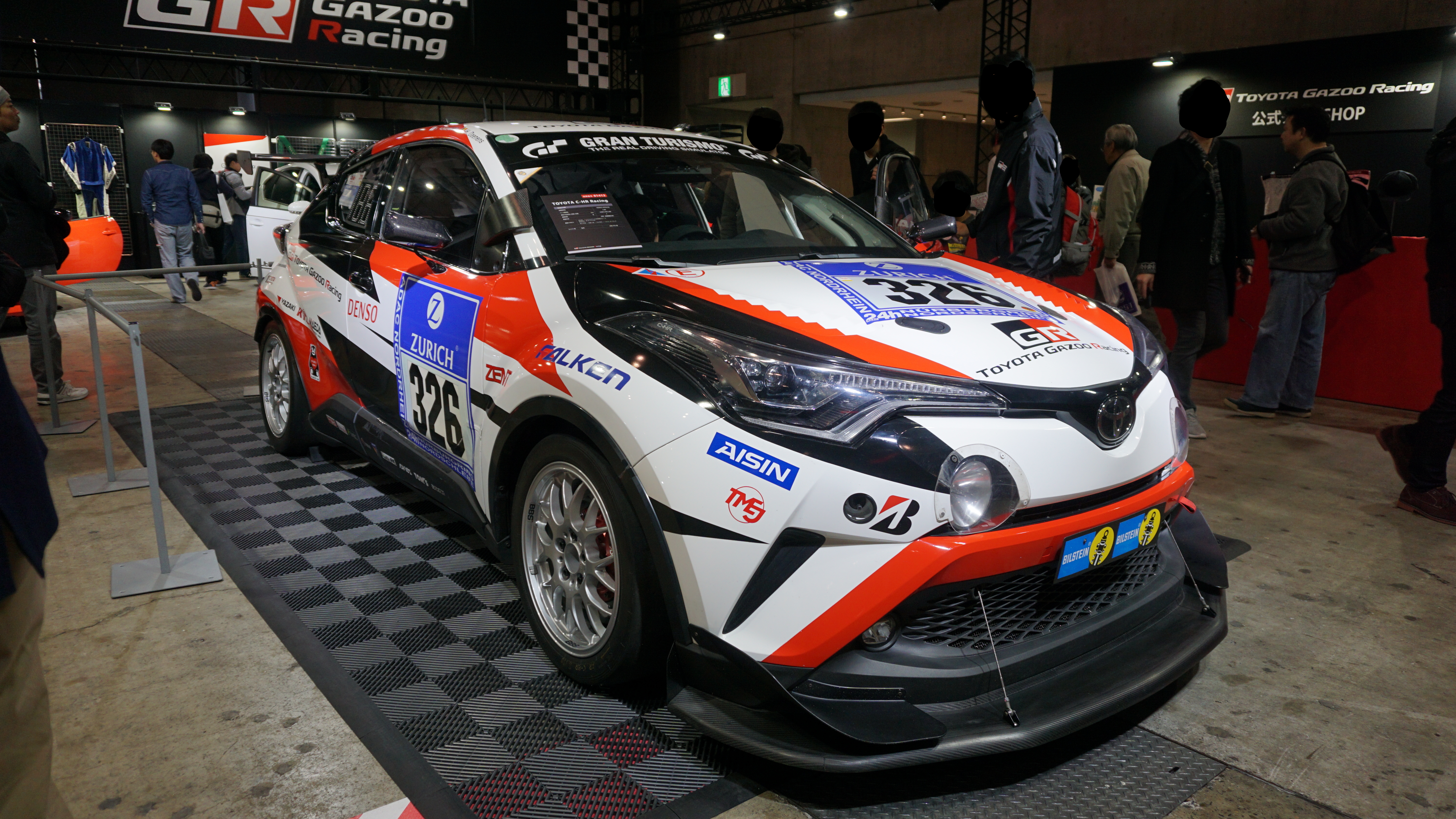 C-HR Racing from TOYOTA GAZOO Racing which was used in 24 Hours Nürburgring, showed at the Toyota booth in Tokyo Auto Salon 2017.